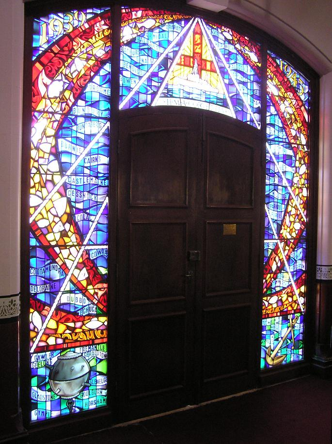 Royal Australian Navy: World War 2 Bathurst class corvette stained glass window at the Garden Island Naval Chapel, Sydney, Australia. Alpha and Omega symbols; names of the ships; mines (they were minesweeper corvettes). I took this picture in November 2006. Peter Ellis 19:10, 17 November 2006 (UTC)